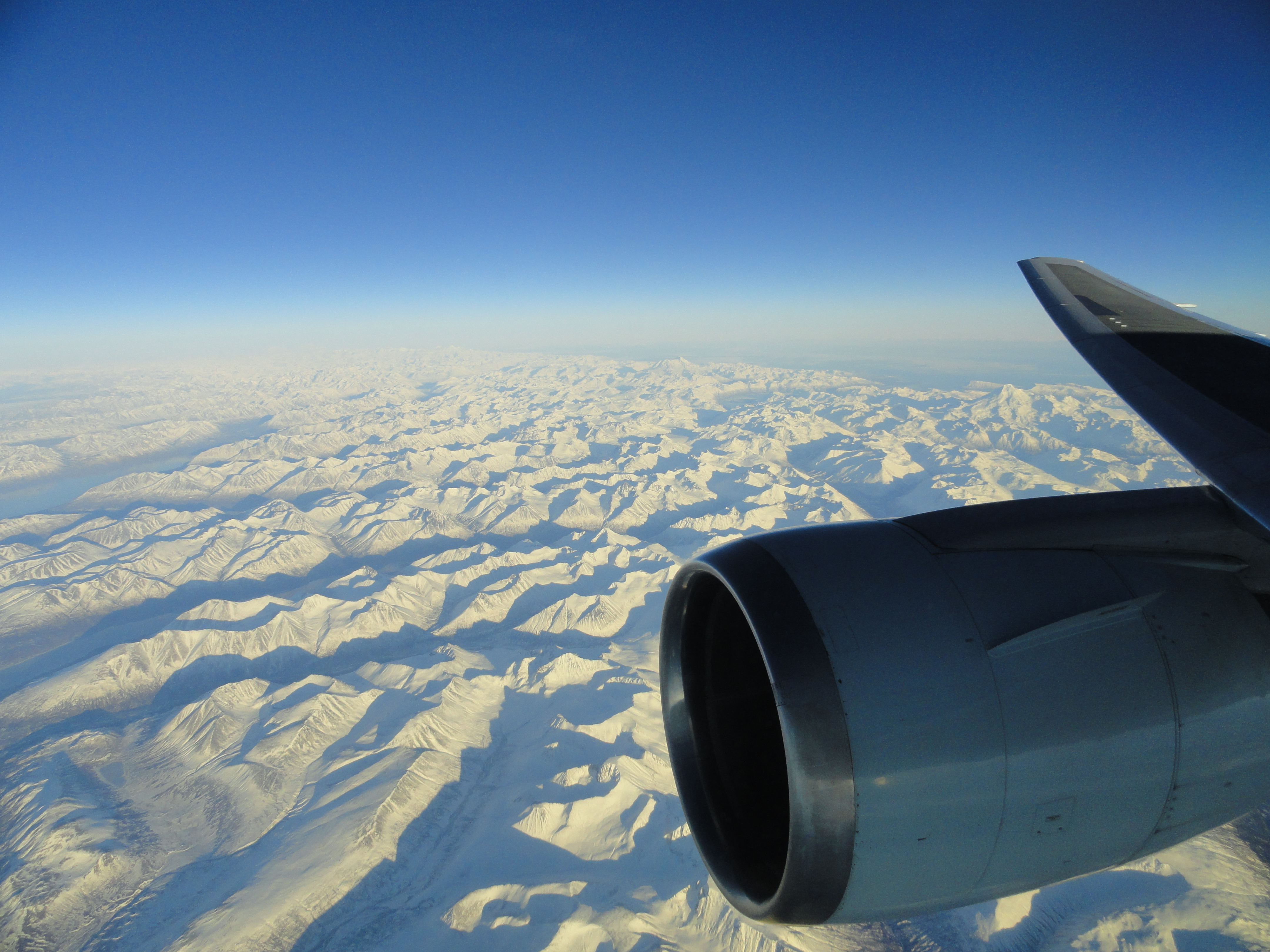 Air Canada Boeing 767-300ER with CF6-80C2B6F engines cruising over Alaska, USA.